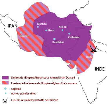 Limites de l'Empire Afghan sous Ahmad Shah Durrani 23-12-2007